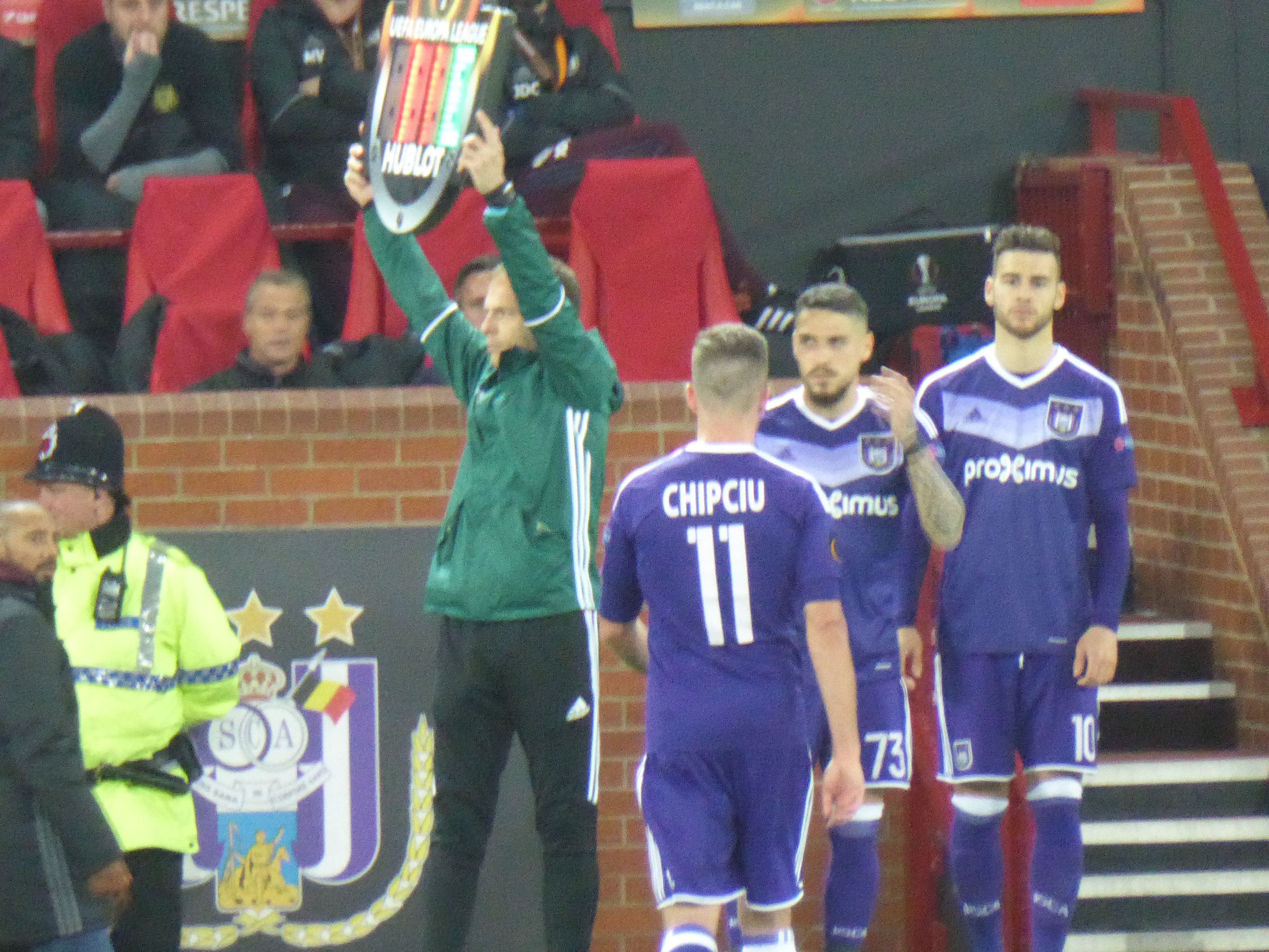 Manchester United v RSC Anderlecht (2-1), UEFA Europa League, Old Trafford, Manchester, Greater Manchester, England 20 April 2017